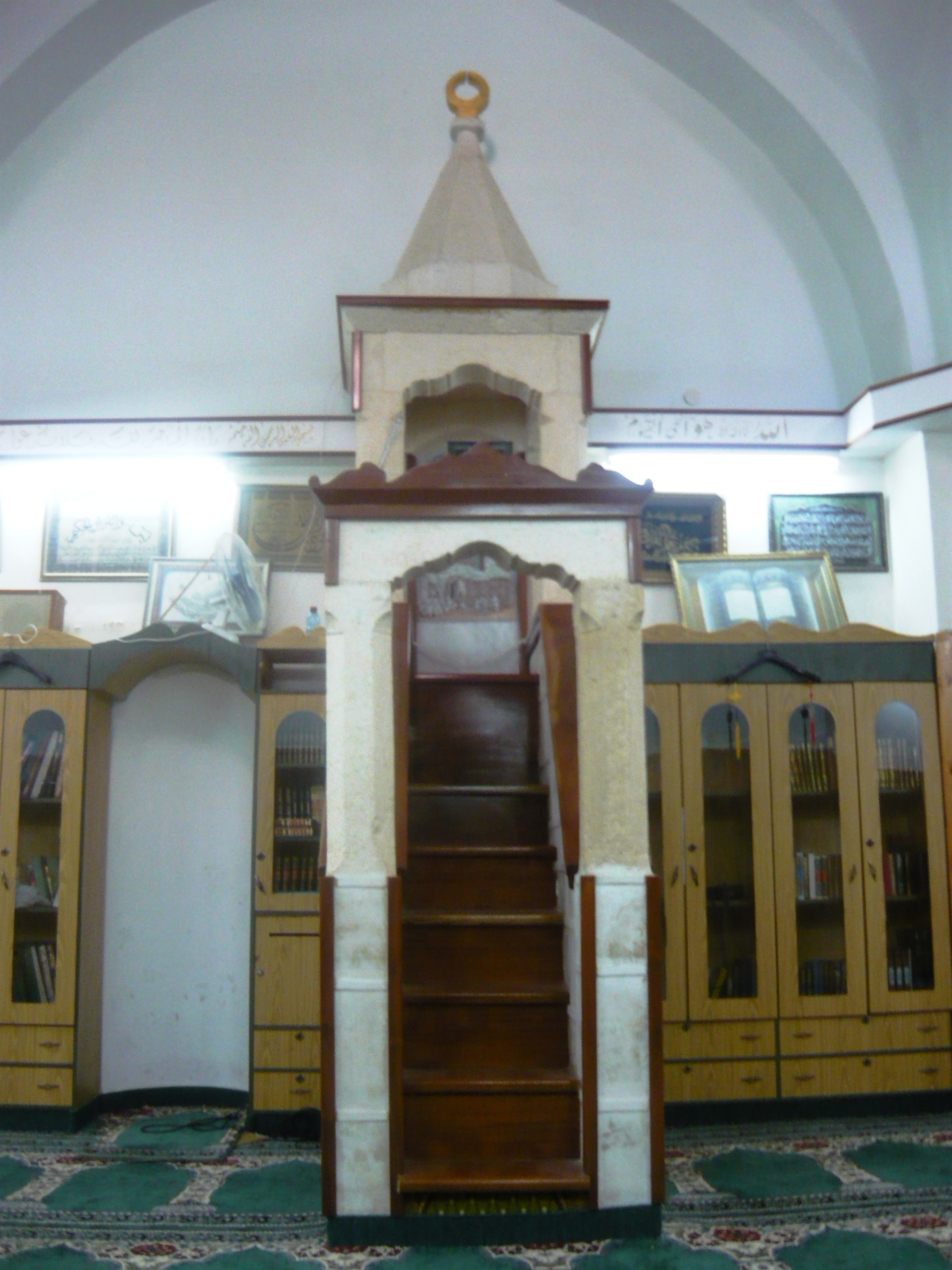 The Minbar in the white mosque in Nazareth